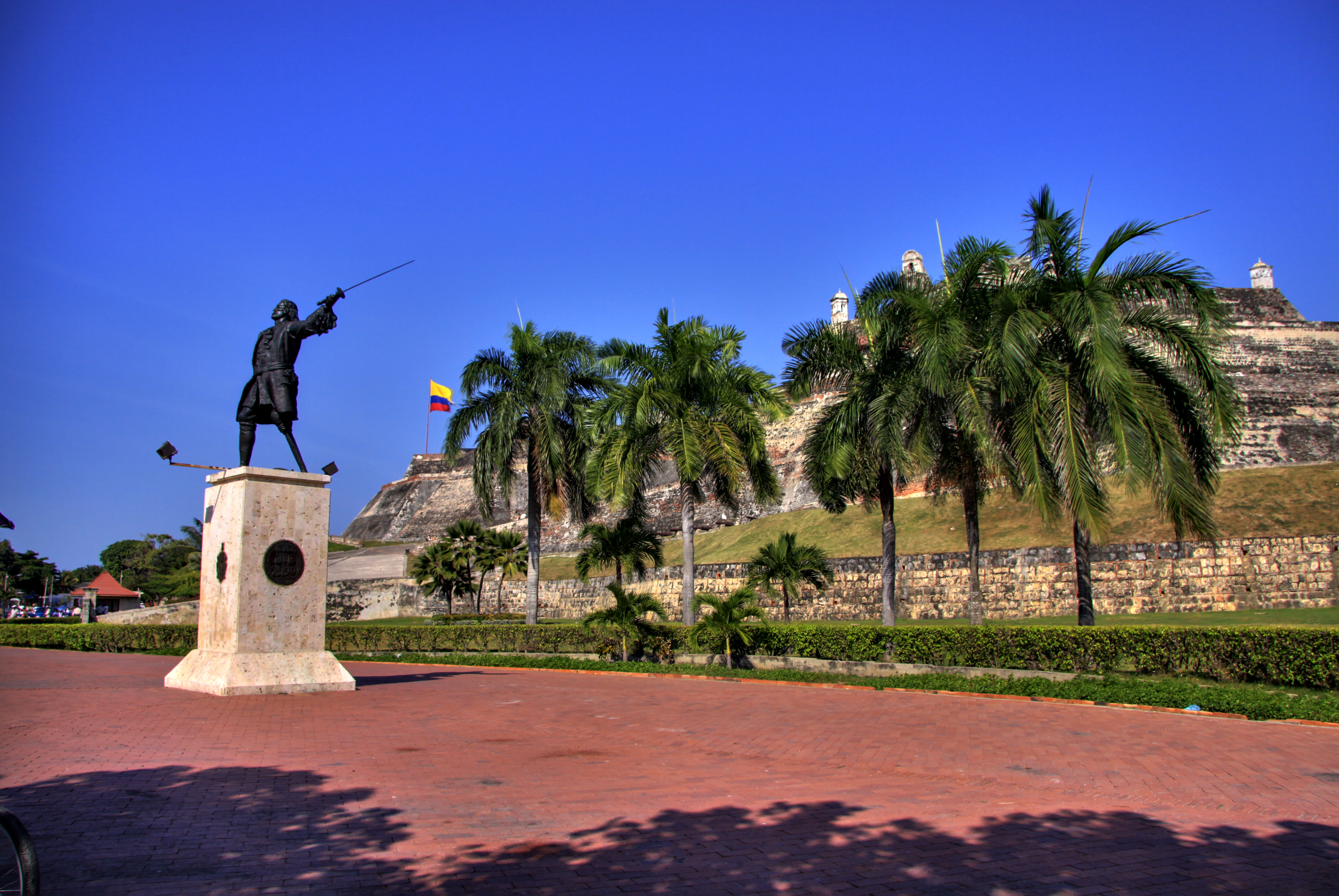 Please, have this description accessible to all by translating it in different languages.